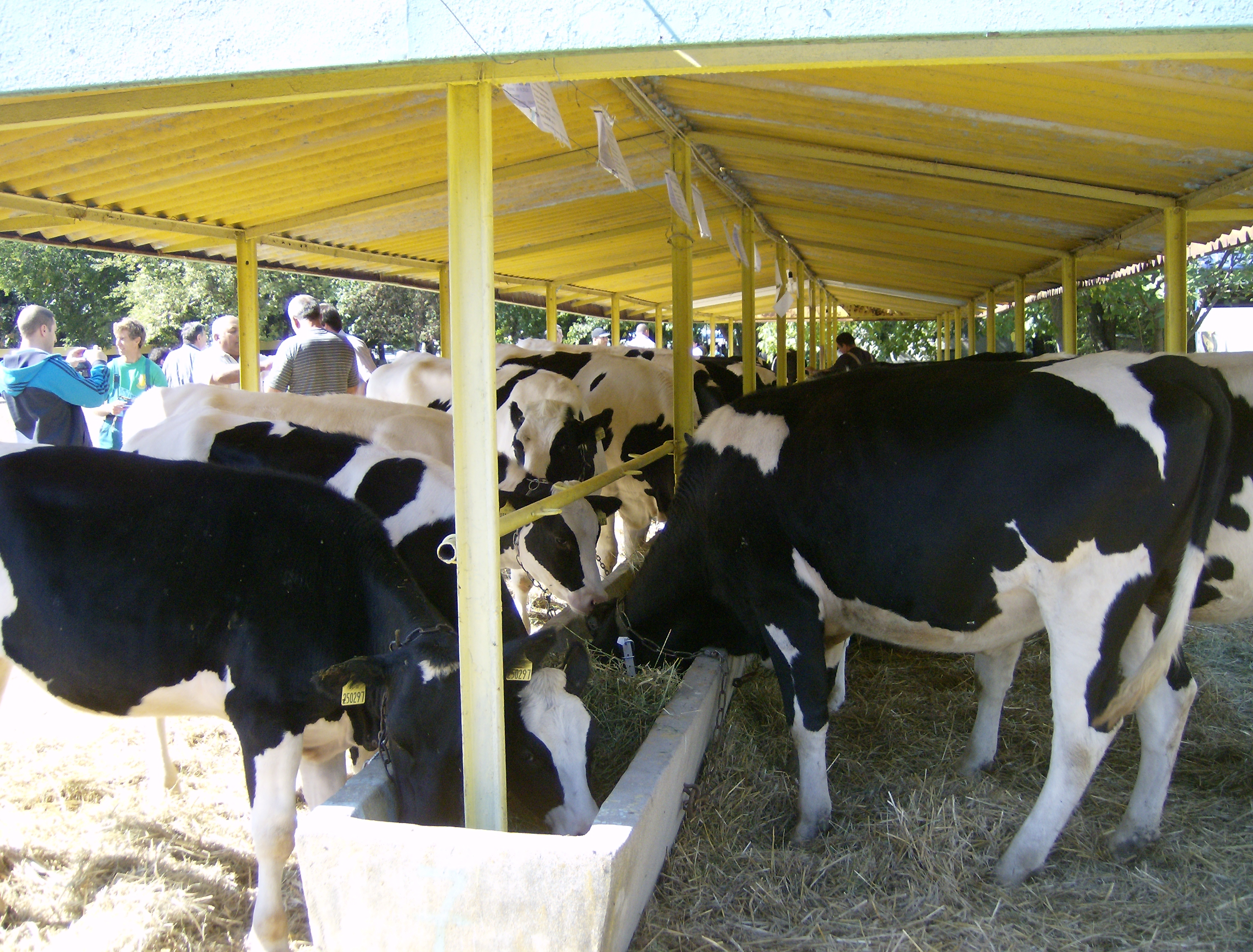 Bulgarian Black Pied Cattle